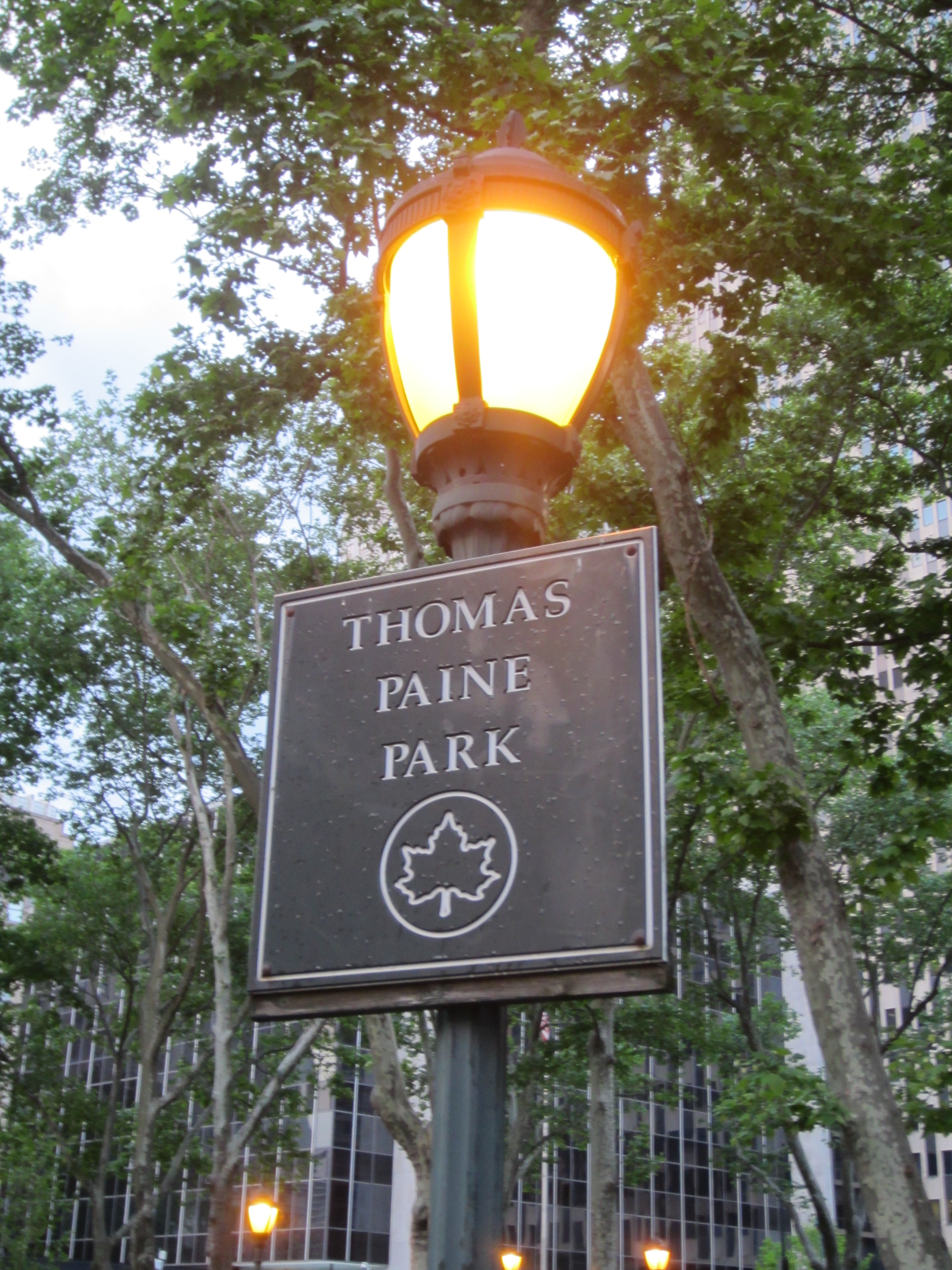 New York City (May 2014)